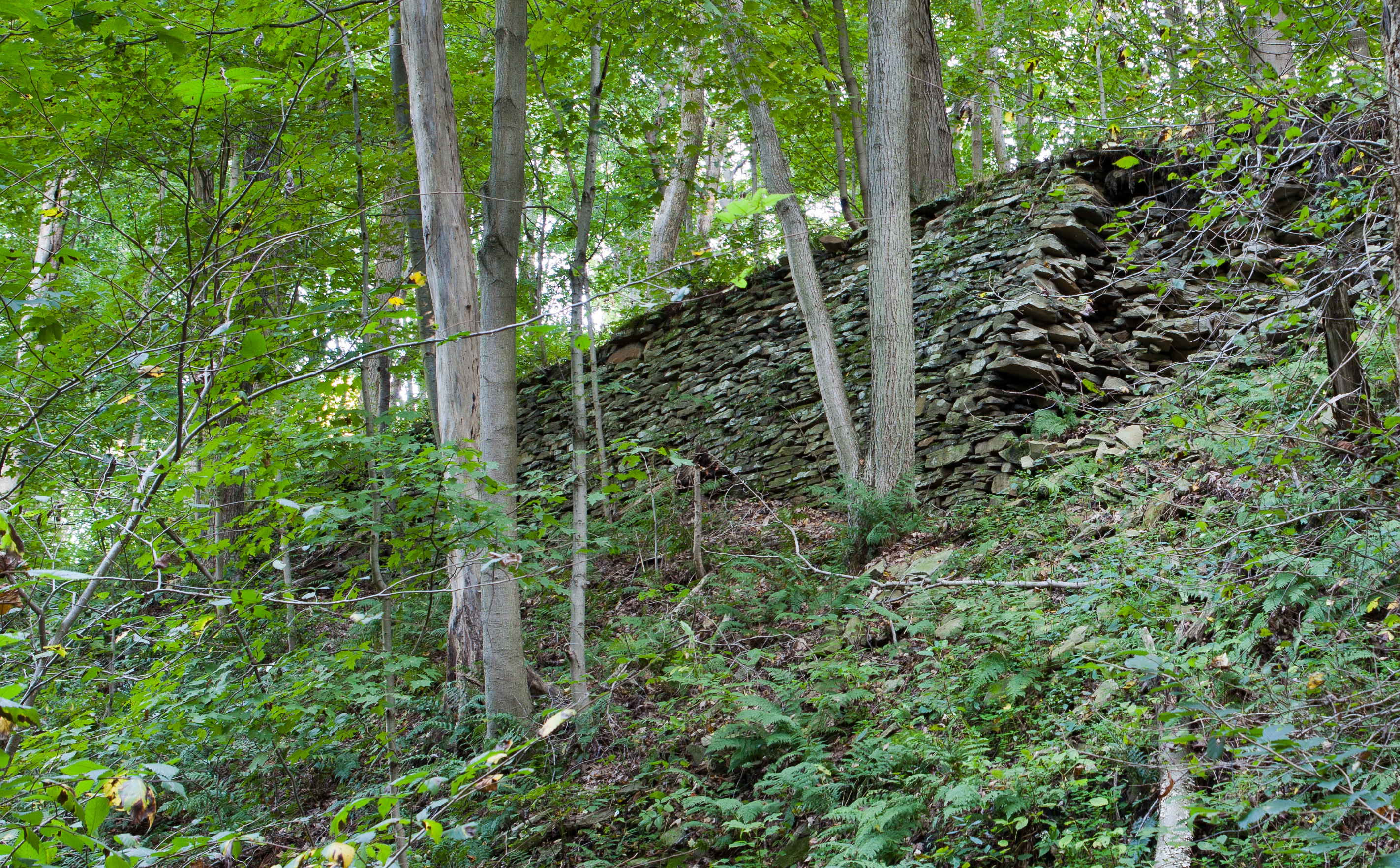 Charcoal House at Alliance Furnace, Off Township 568 at Jacob Creek.